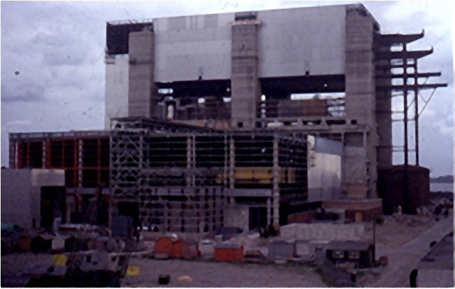 Hartlepool Power Station